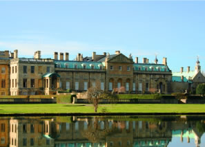 Small photo of Welbeck Abbey in 2007 during the summer floods of that year.